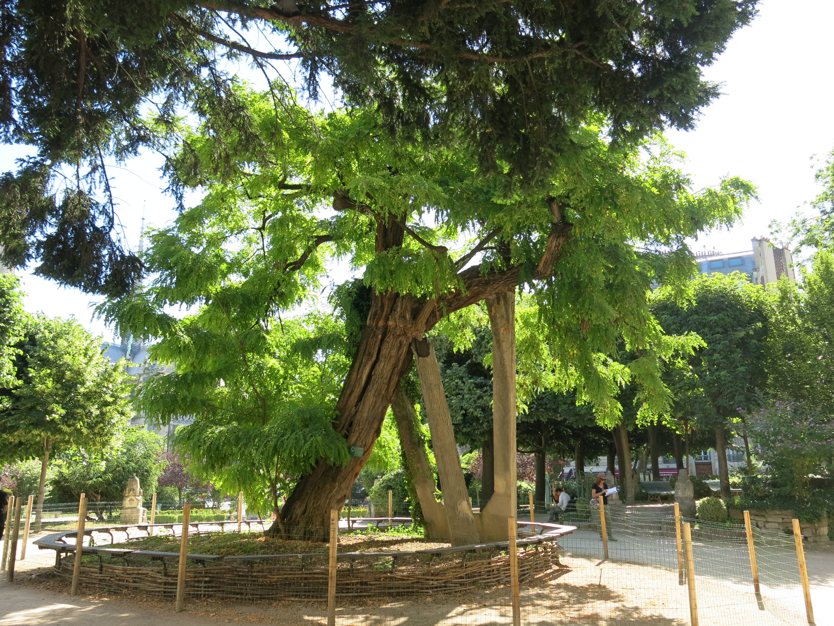 Black locust of the square Viviani. The ivy has been cut off. Paris 5th arr.